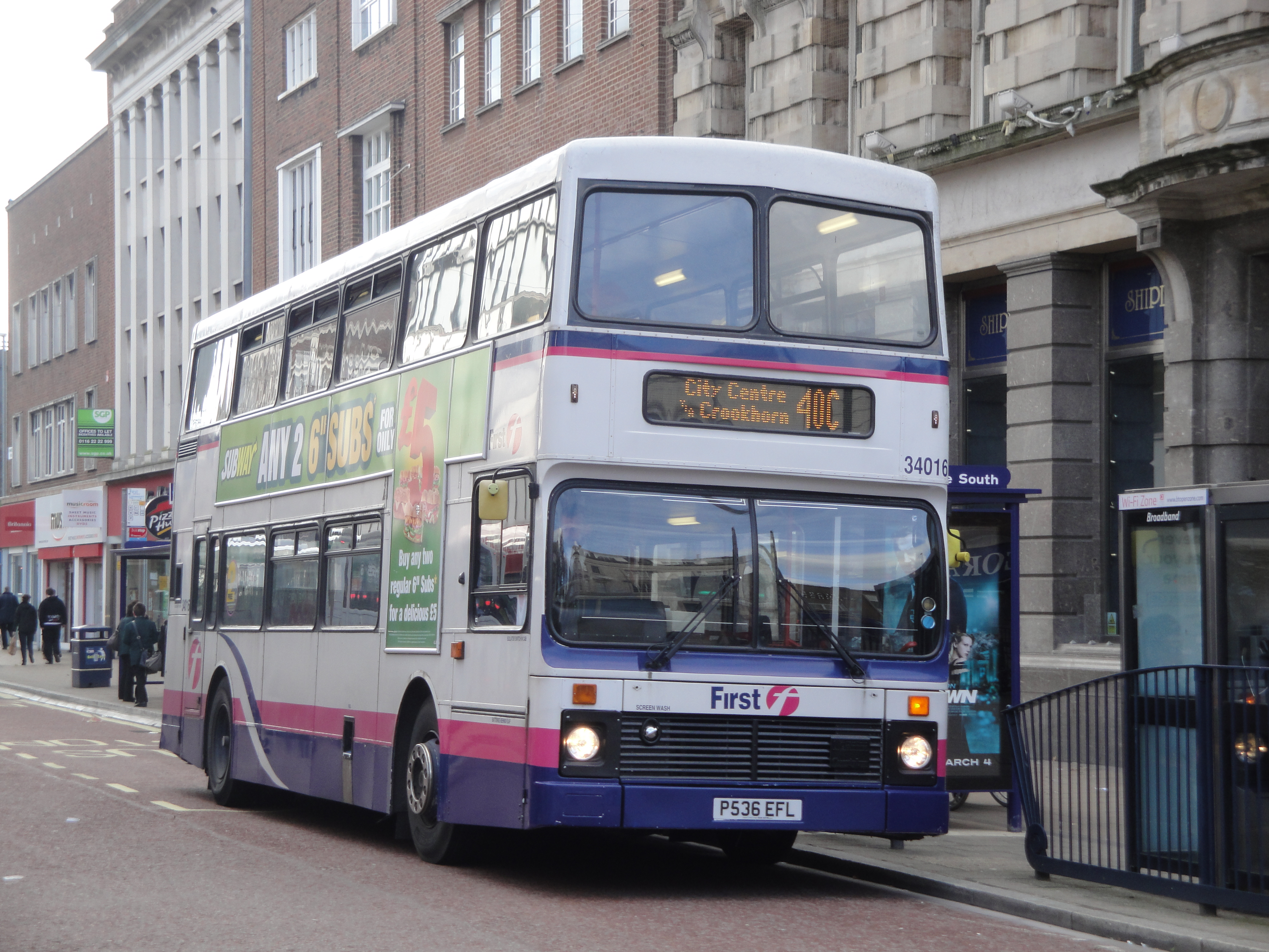 First Hampshire & Dorset 34016 (P536 EFL), a Volvo Olympian/Northern Counties Palatine 1 in Commercial Road, Portsmouth, Hampshire on route 40C.